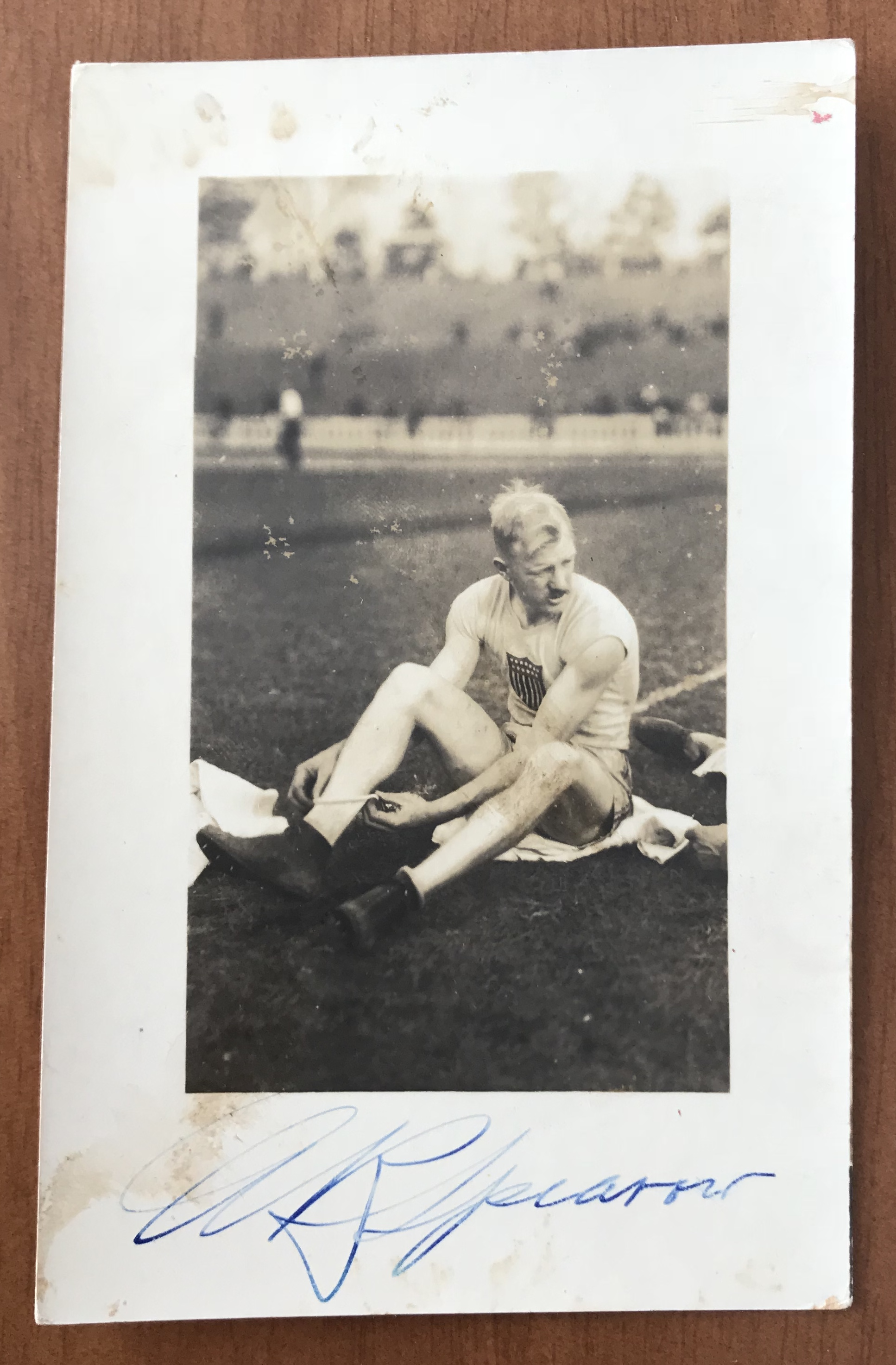 Postcard